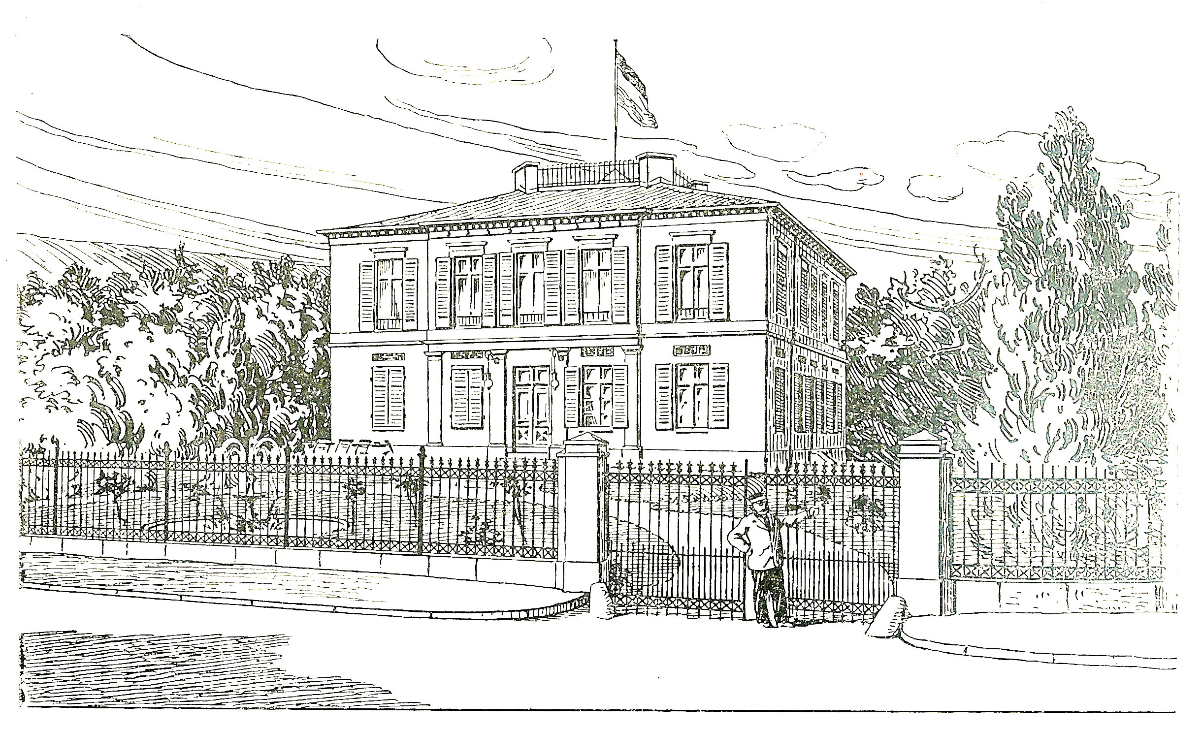 Former house of student fraternity Corps Bavaria Würzburg, Germany, Veitshöchheimer Str. 8